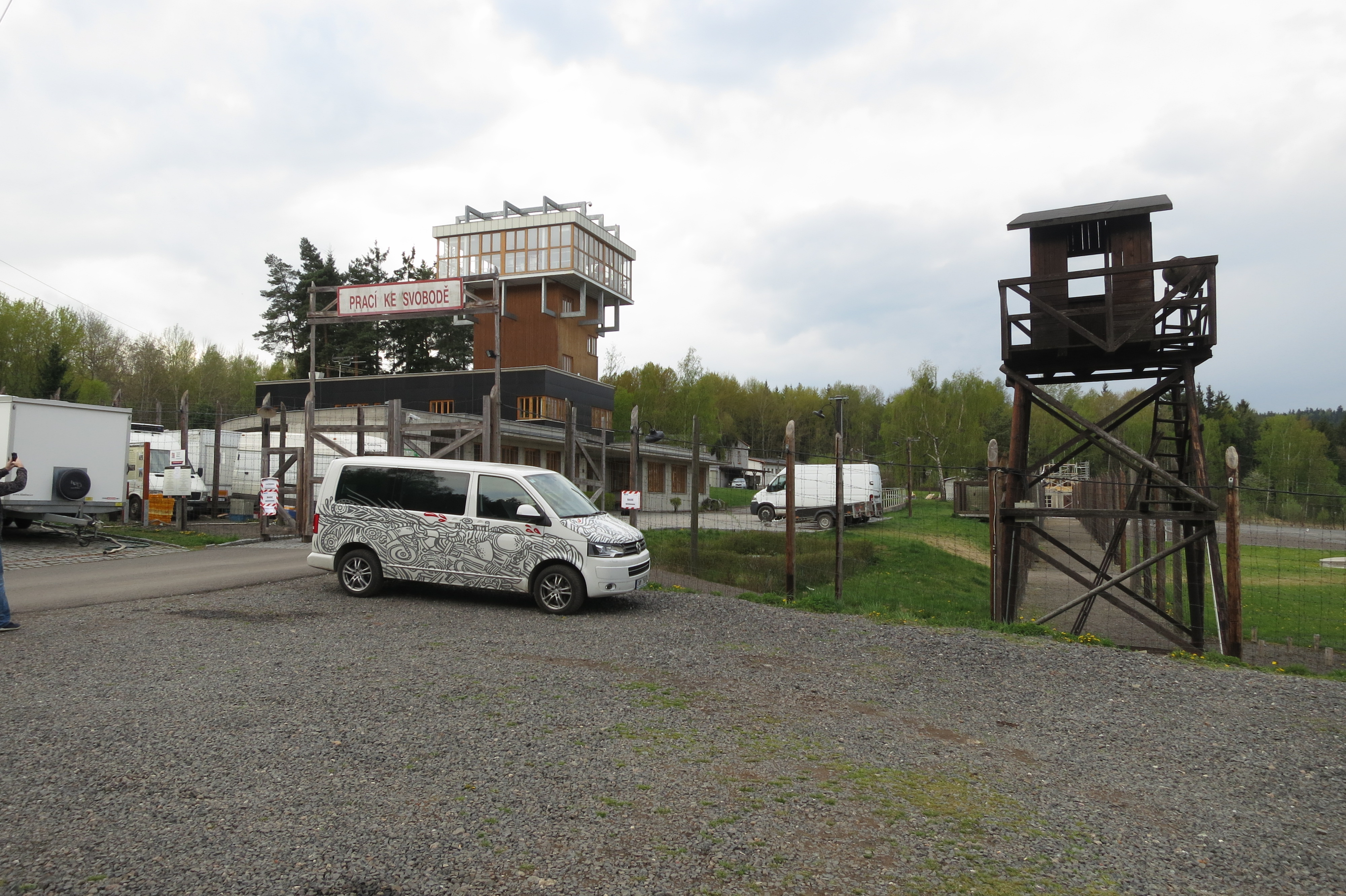 Overview of entrance of Vojna memorial in Příbram, Příbram District.